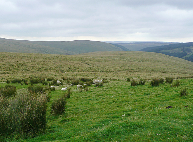 Rough razing on Drum Nantygorian, Powys Showing the Elenydd moorland landscape looking from the recumbent stone, southwards parallel with Cwm Irfon, which is the deep valley in the picture, distant and on the right.